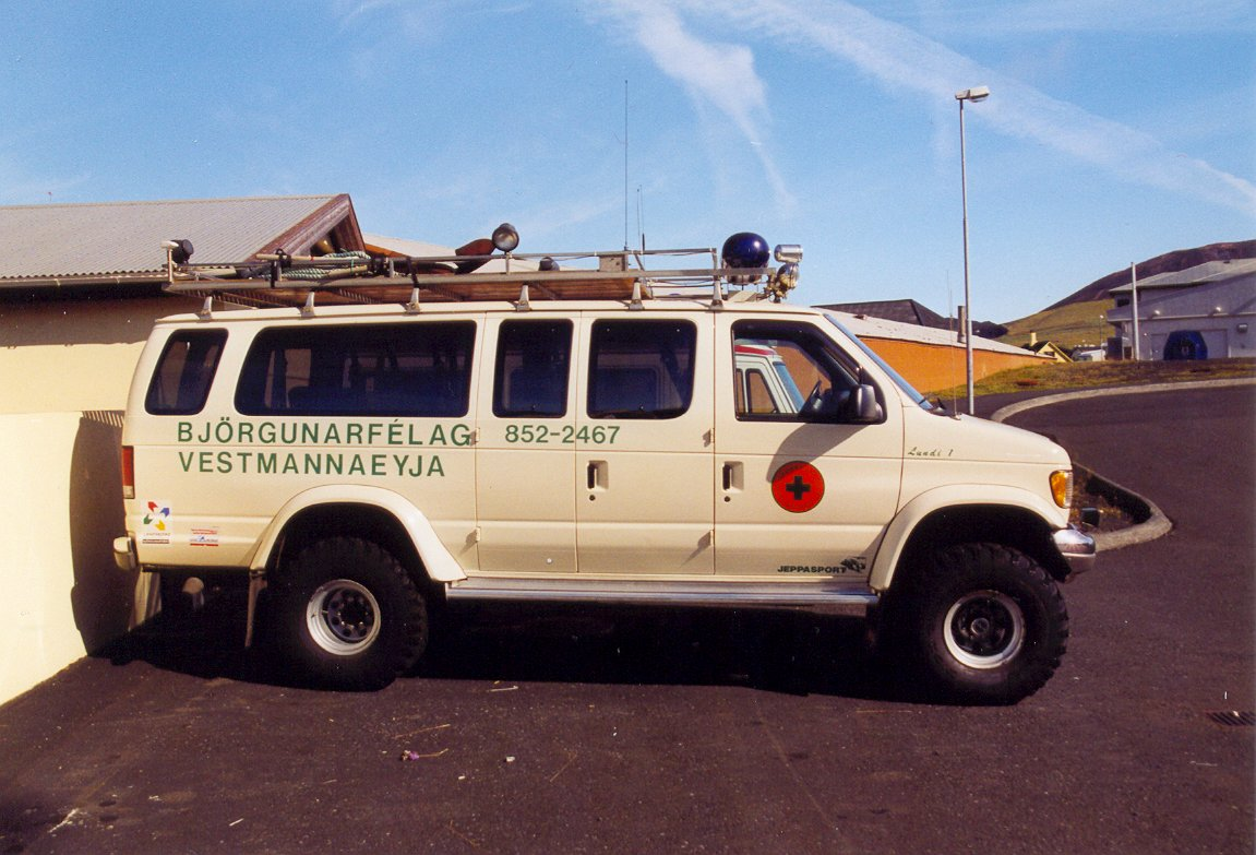 Rescue vehicle Iceland Heimaey